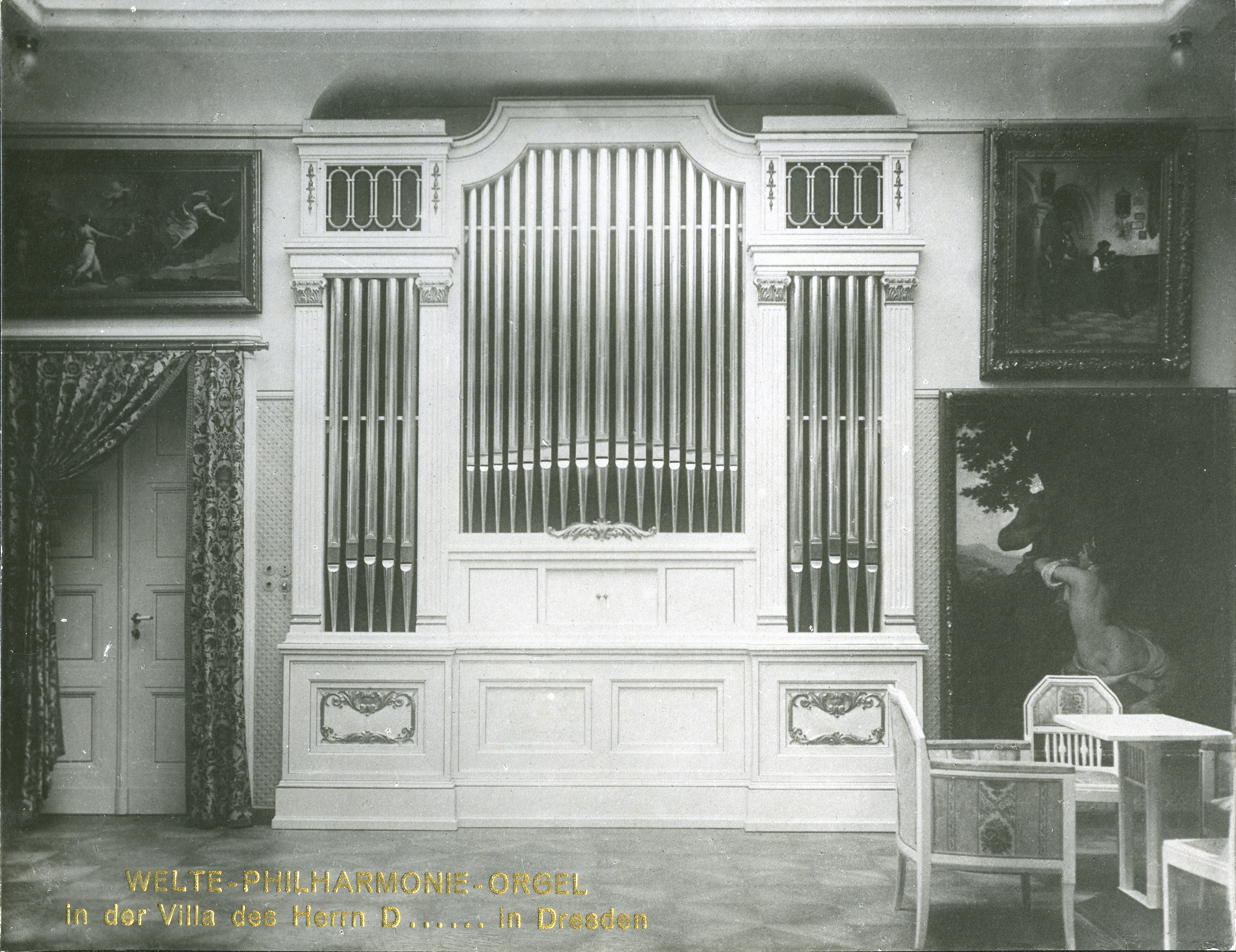 Reproduction (scan) of a photo: Welte philharmonic organ at the house of Mr. D., Dresden. Photo in a company catalogue of Welte & Sons from 1914, photographer unknown.